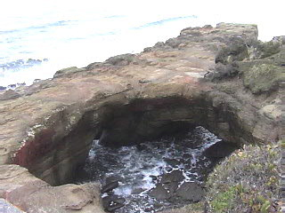 View of the carved rock called Devils Punch Bowl and waves of the Pacific Ocean beating into it. Center piece of the Devils Punch Bowl State Natural Area, Oregon, United States.